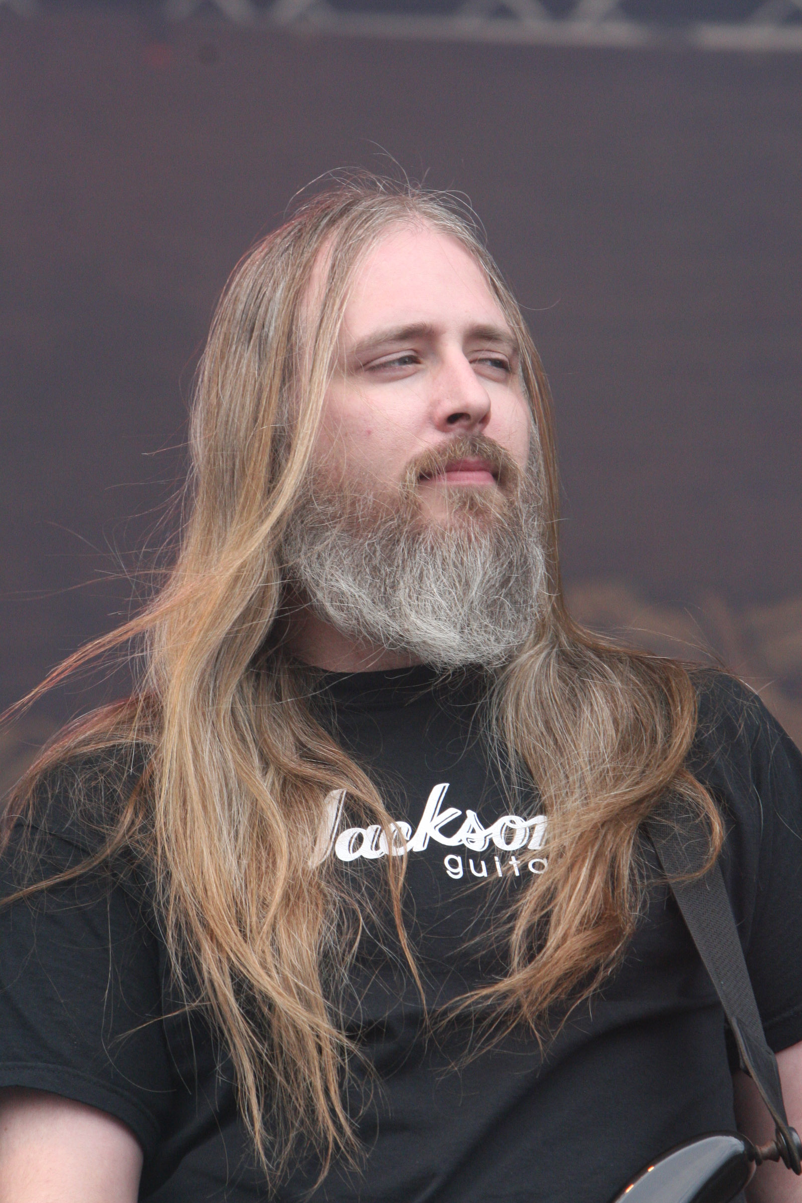 John Campbell, bassist of Lamb of God, at With Full Force 2007